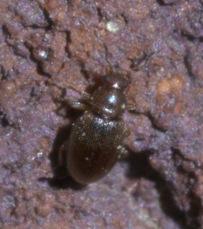 Corticarina, Family: Minute Brown Scavenger Beetles, Size: 1.5 mm, ID Confidence: 90